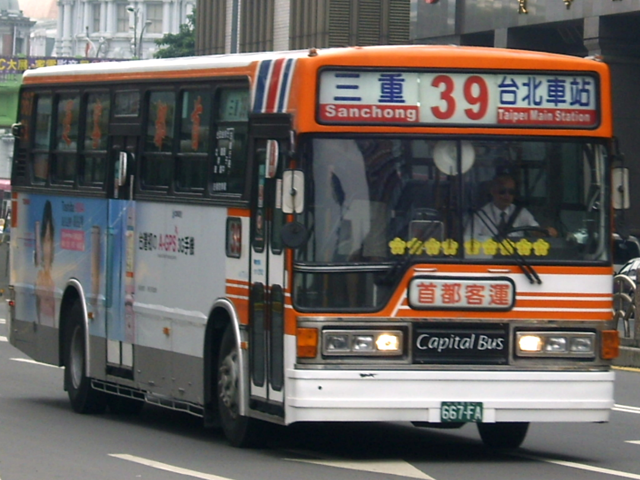 HINO ERK1JRL chassied bus 667-FA is operated by Capital Bus.